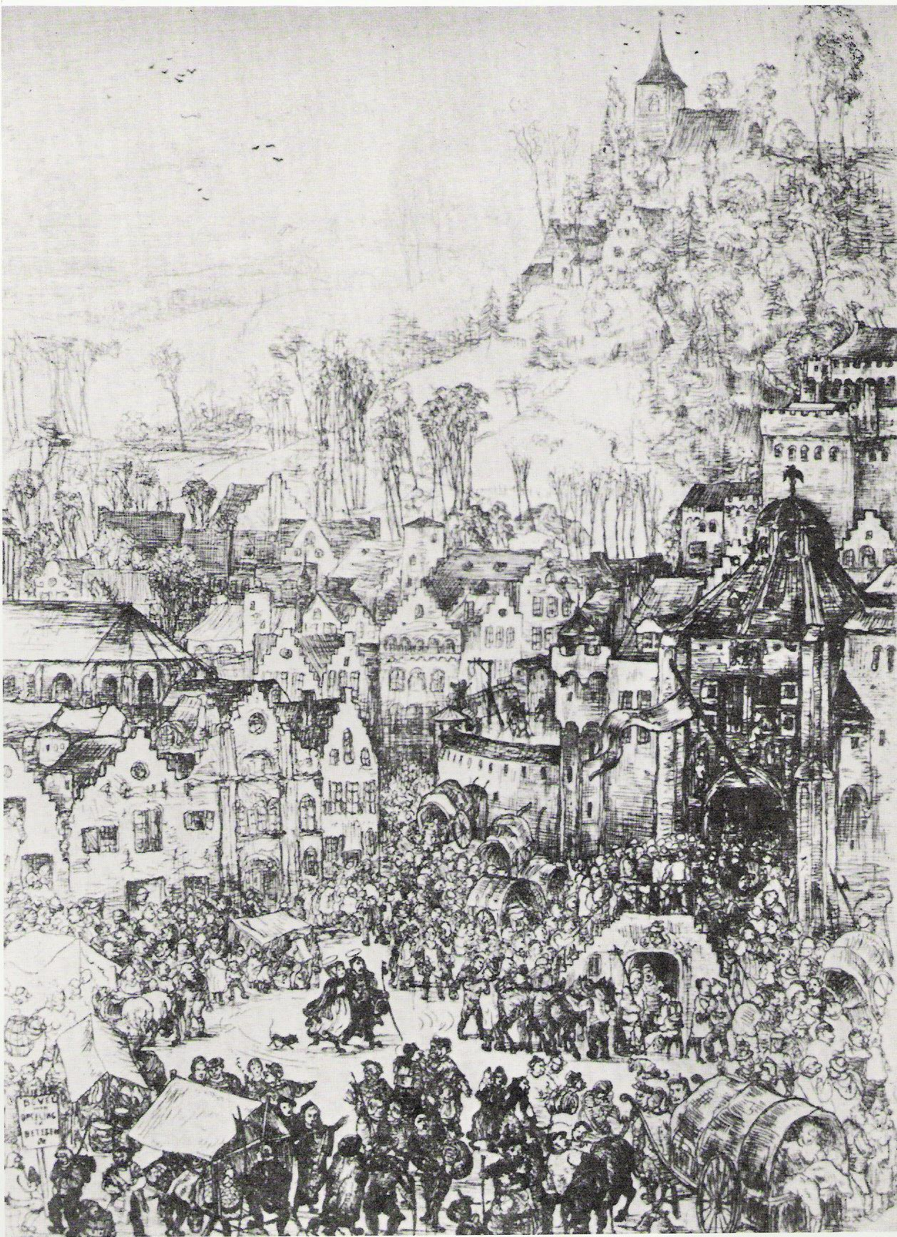 "Census at Bethlehem" by the Belgian artist René De Coninck (1907-1978)